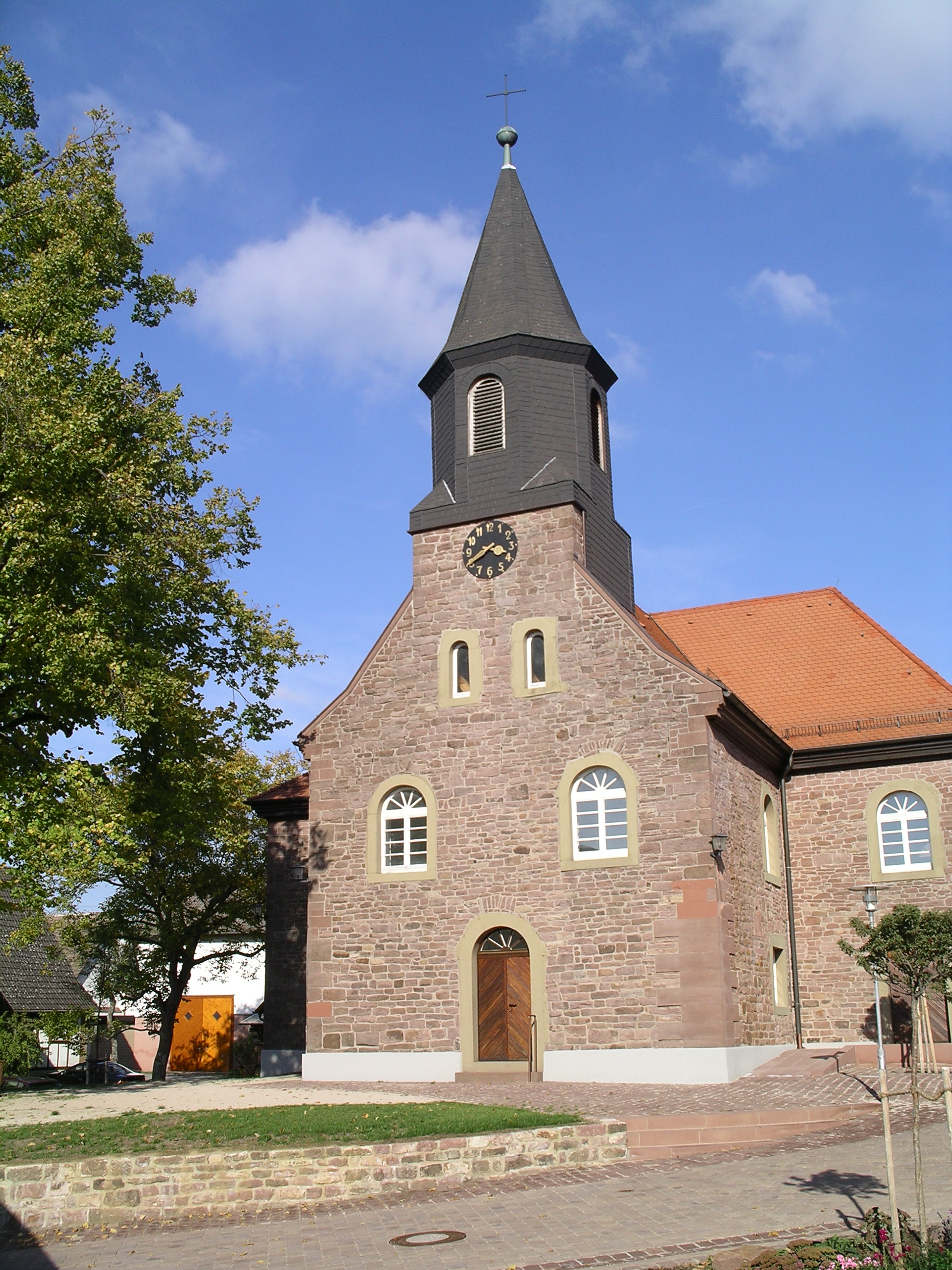 Evangelical Church in Spielberg (Karlsbad)